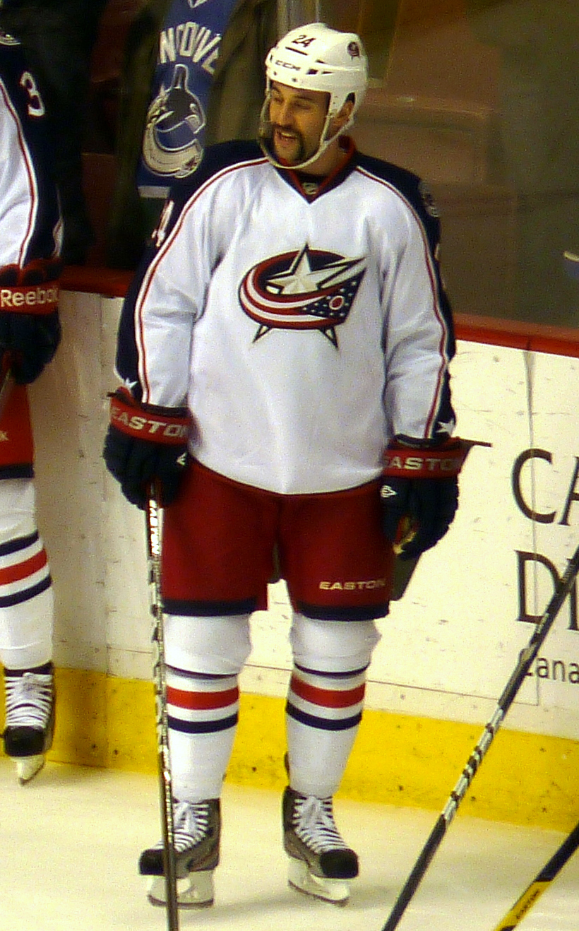 Columbus Blue Jackets forward Derek Mackenzie during a game against the Vancouver Canucks on November 29, 2011.